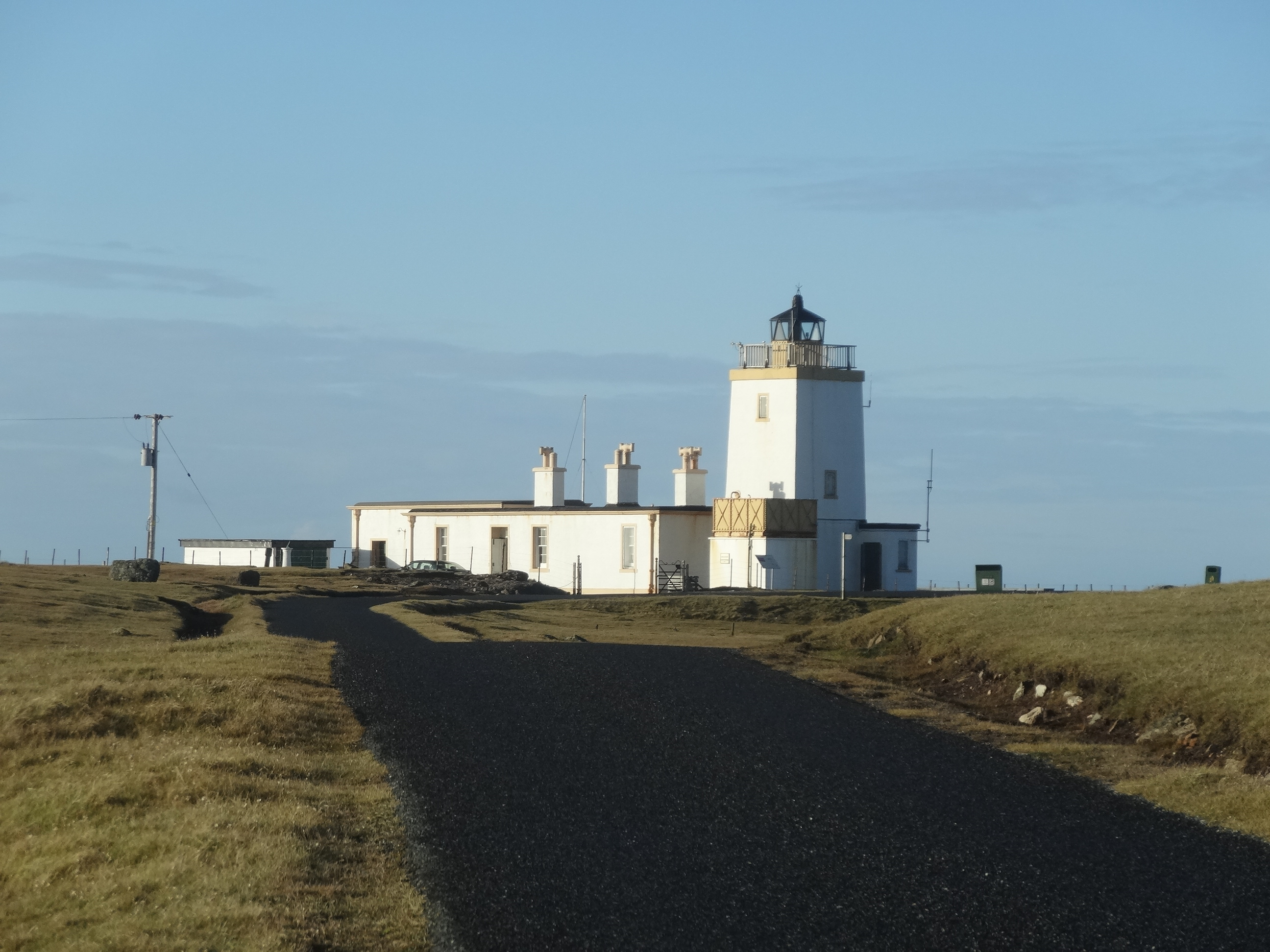 This is the Esha Ness lighthouse on Shetland Islands.